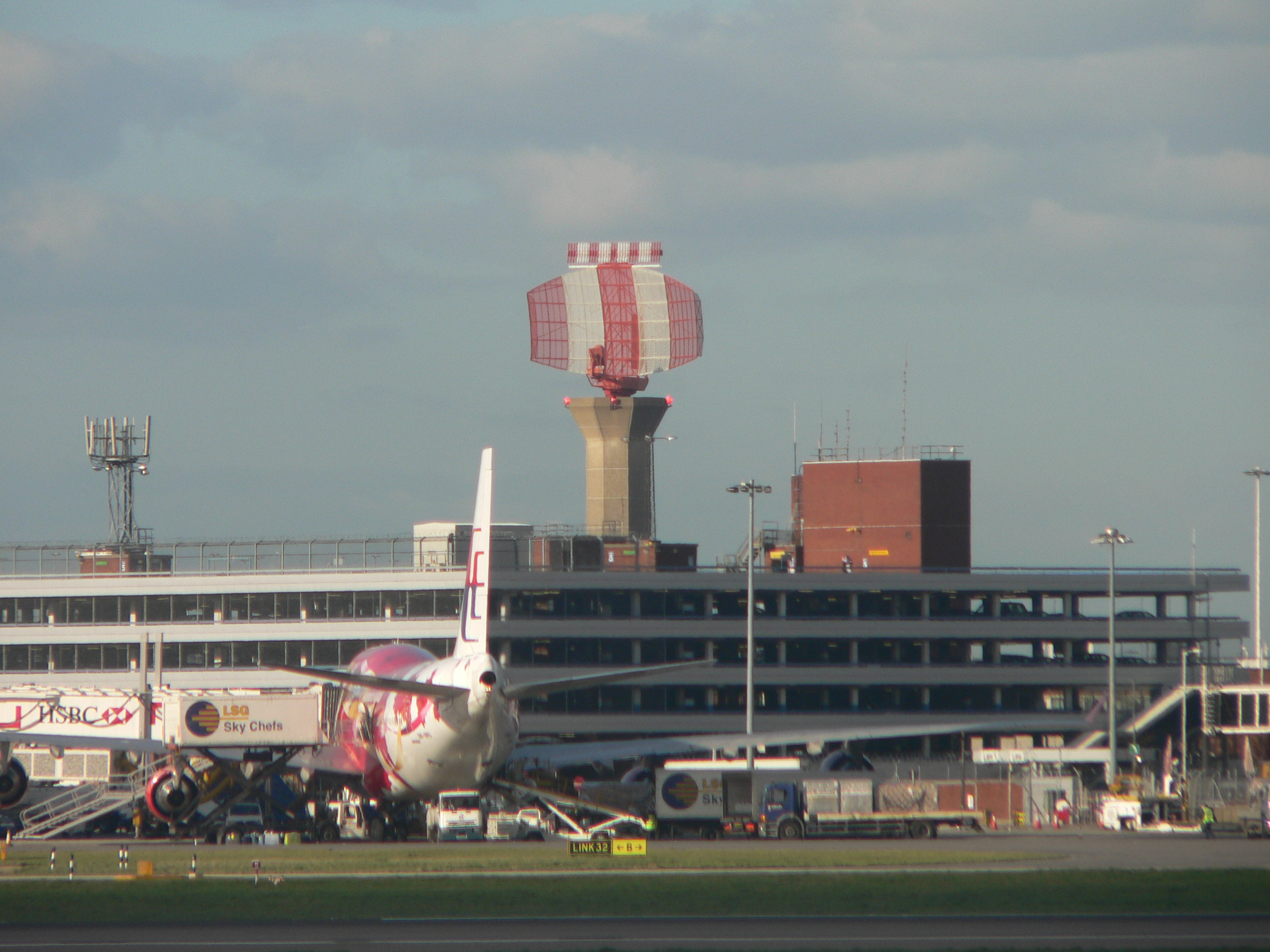 A radar tower at London Heathrow Airport